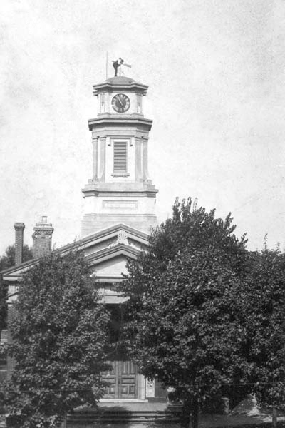 La Porte County Second Court House